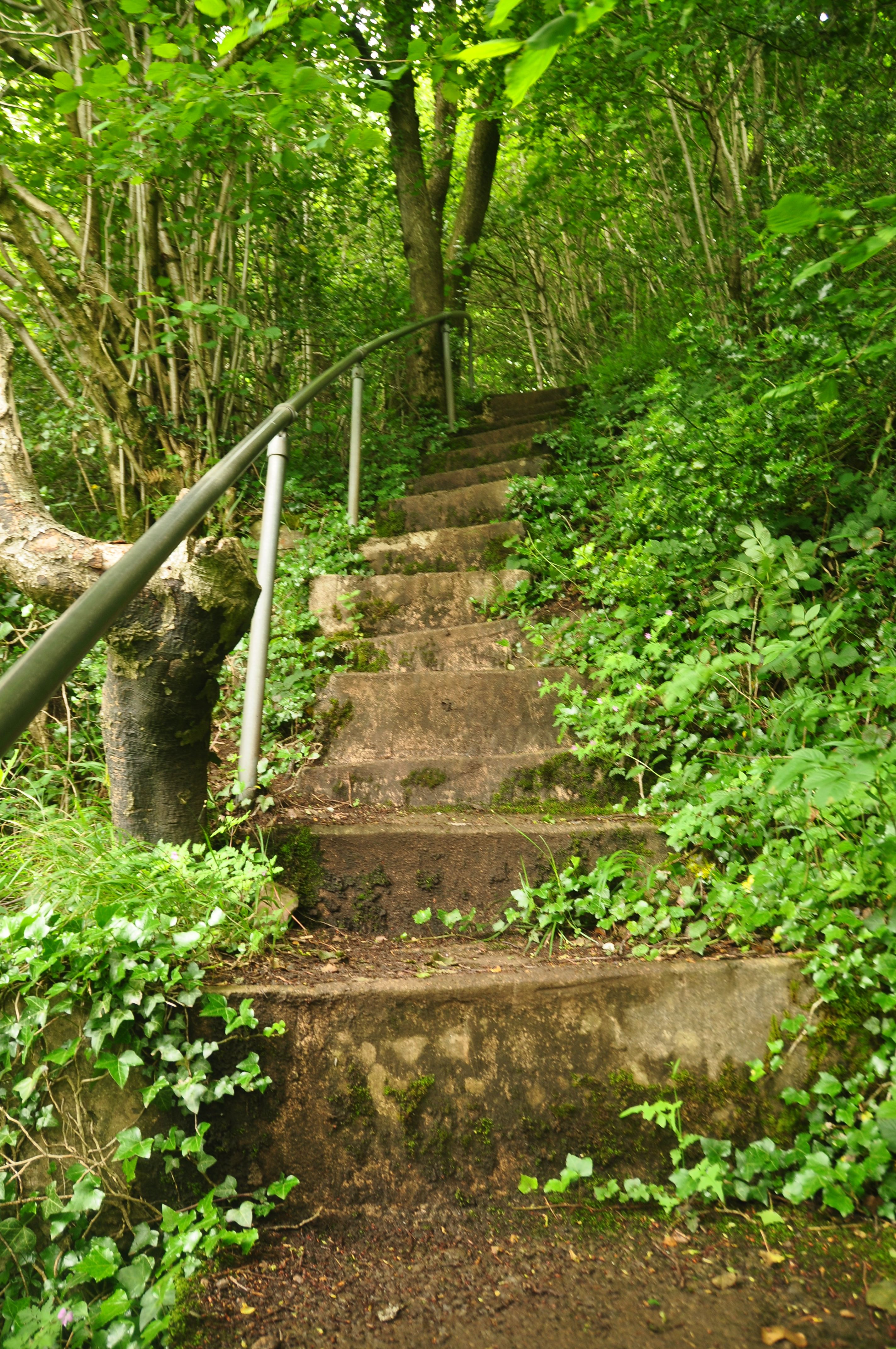 Stairs on the Wyndcliff